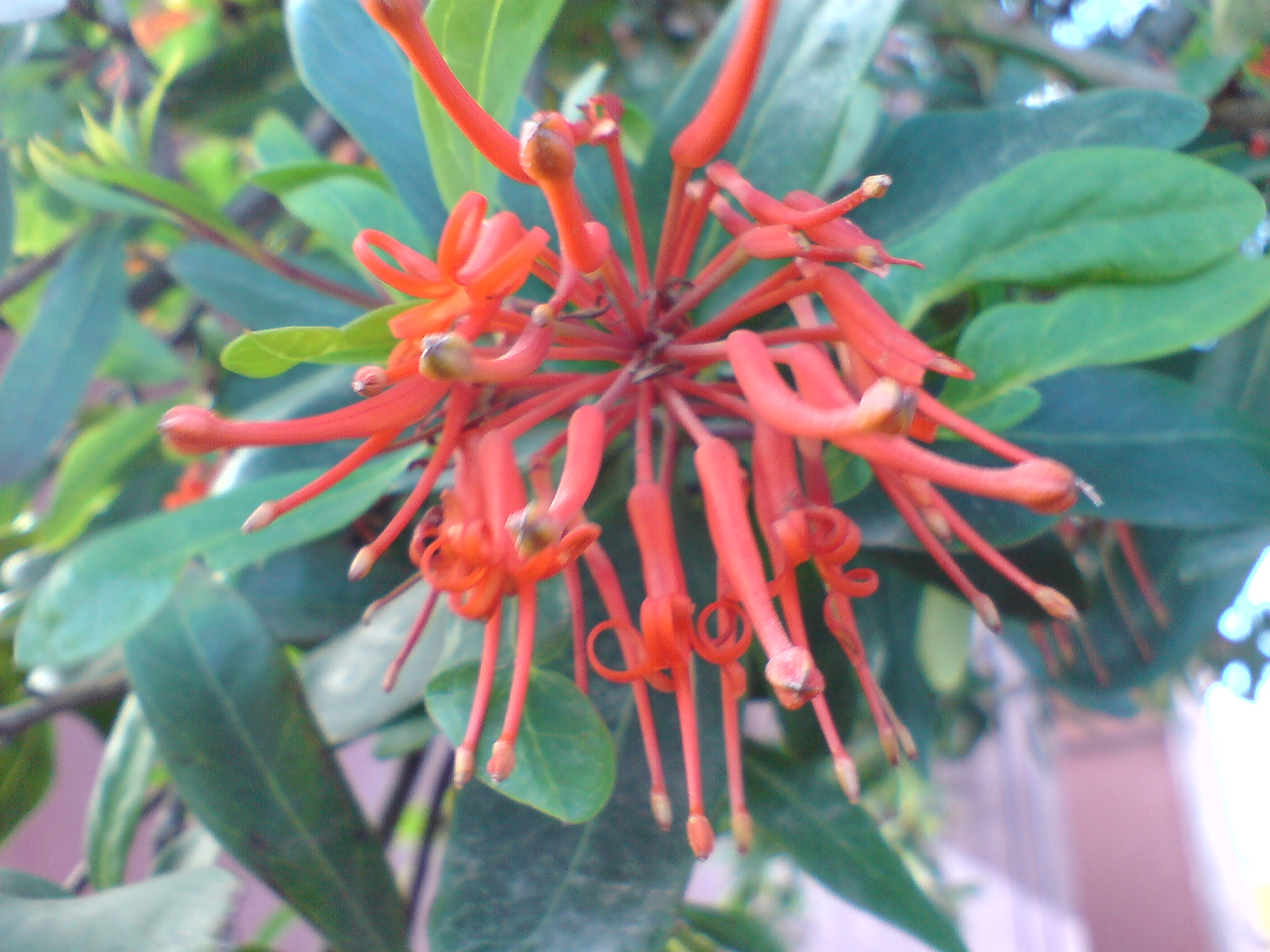 Embothrium coccineum